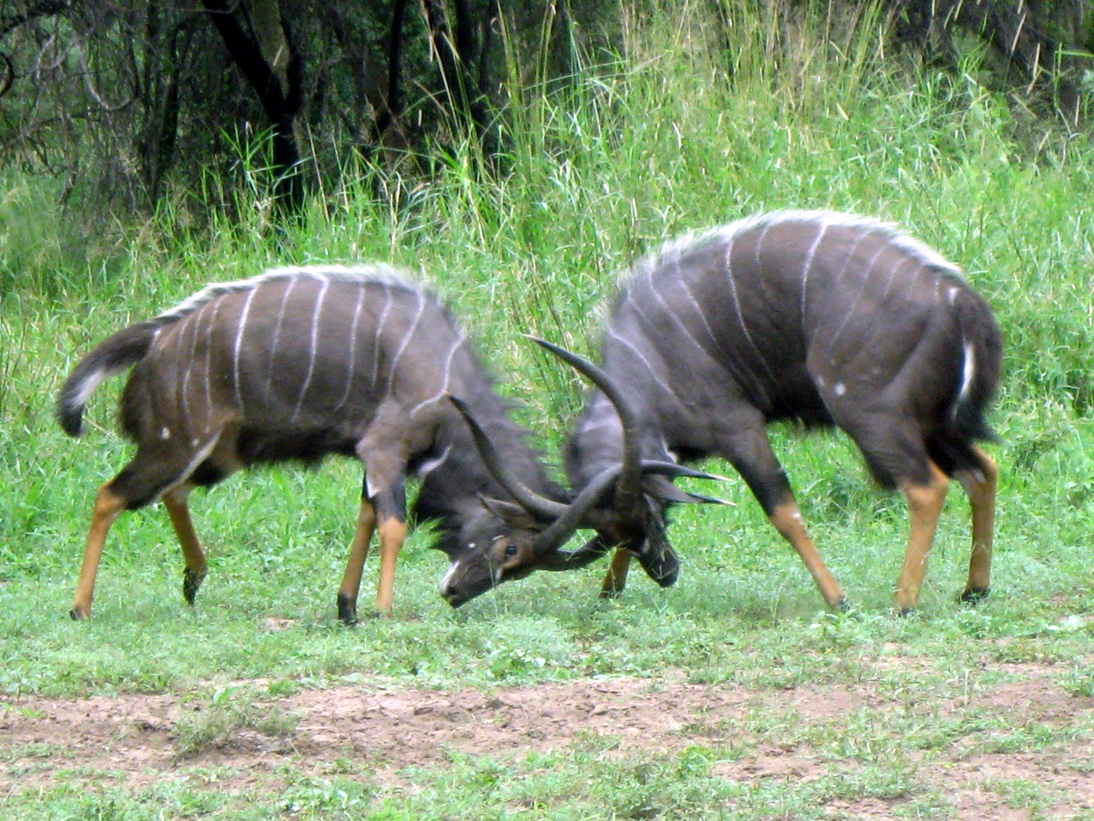 Fighting Nyalas in rut. Malawi.